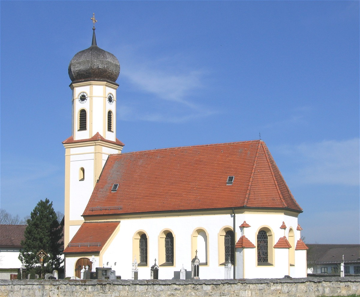 Oberlaindern, St Corbinian Subsidiary Church from south-east.